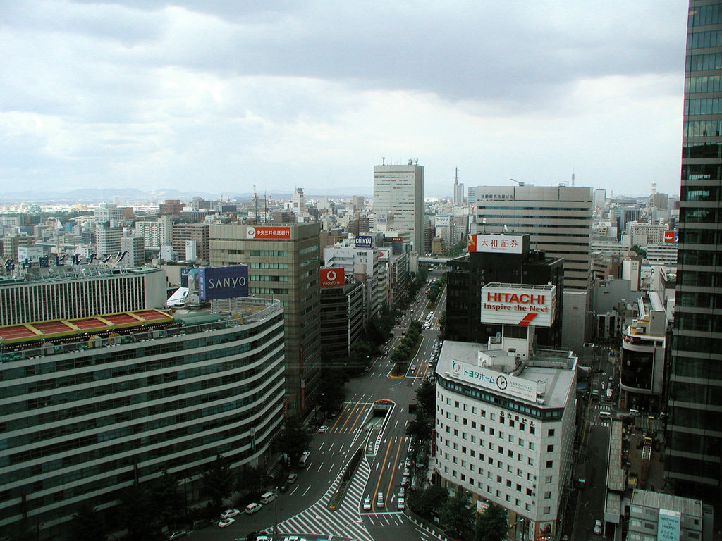 The Sakura-dori, the main thoroughfare that leads east from Nagoya Station towards downtown Nagoya